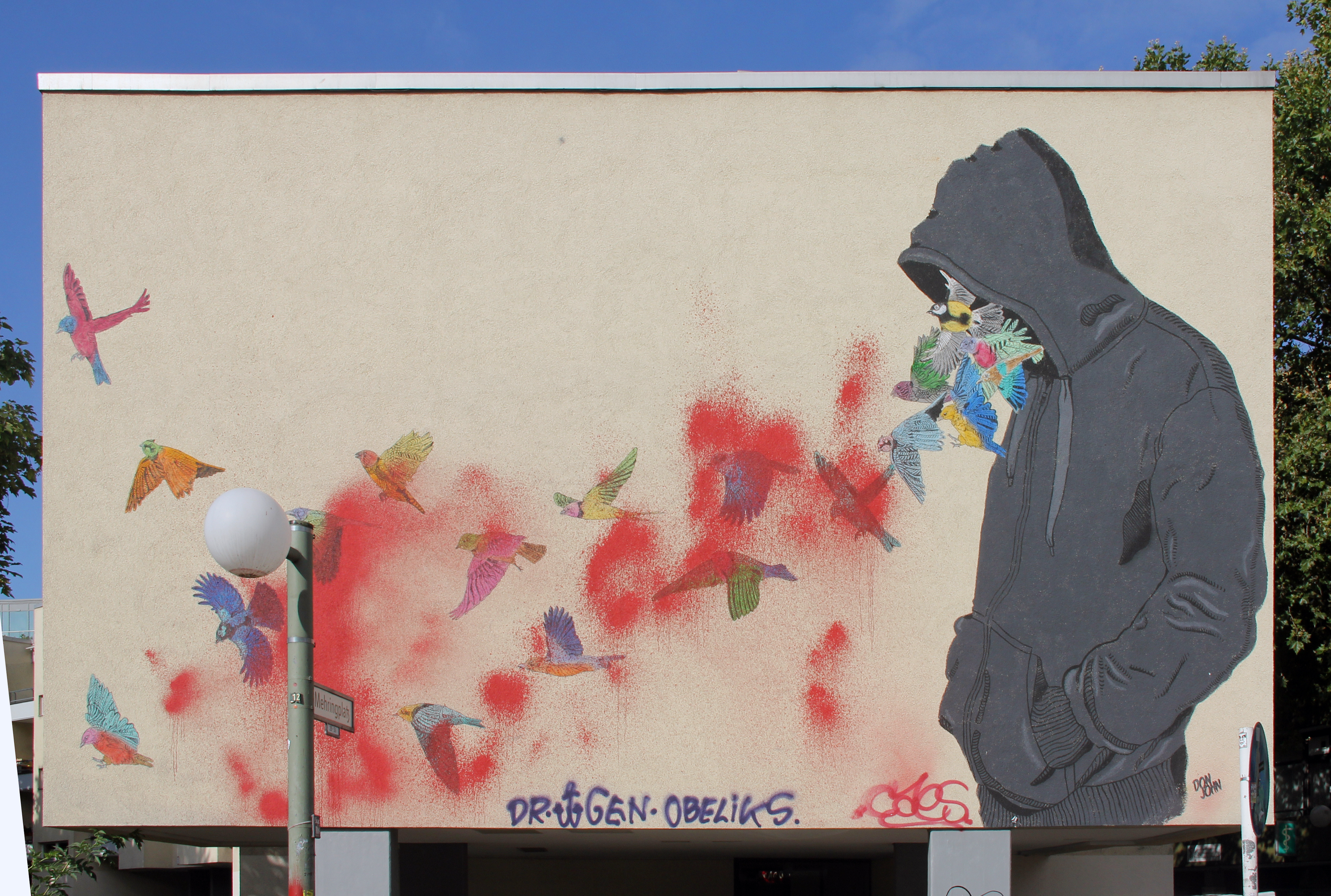 Murals, "Hoodie Birds" by Don John, 2014, Mehringplatz 29, Berlin-Kreuzberg, Germany